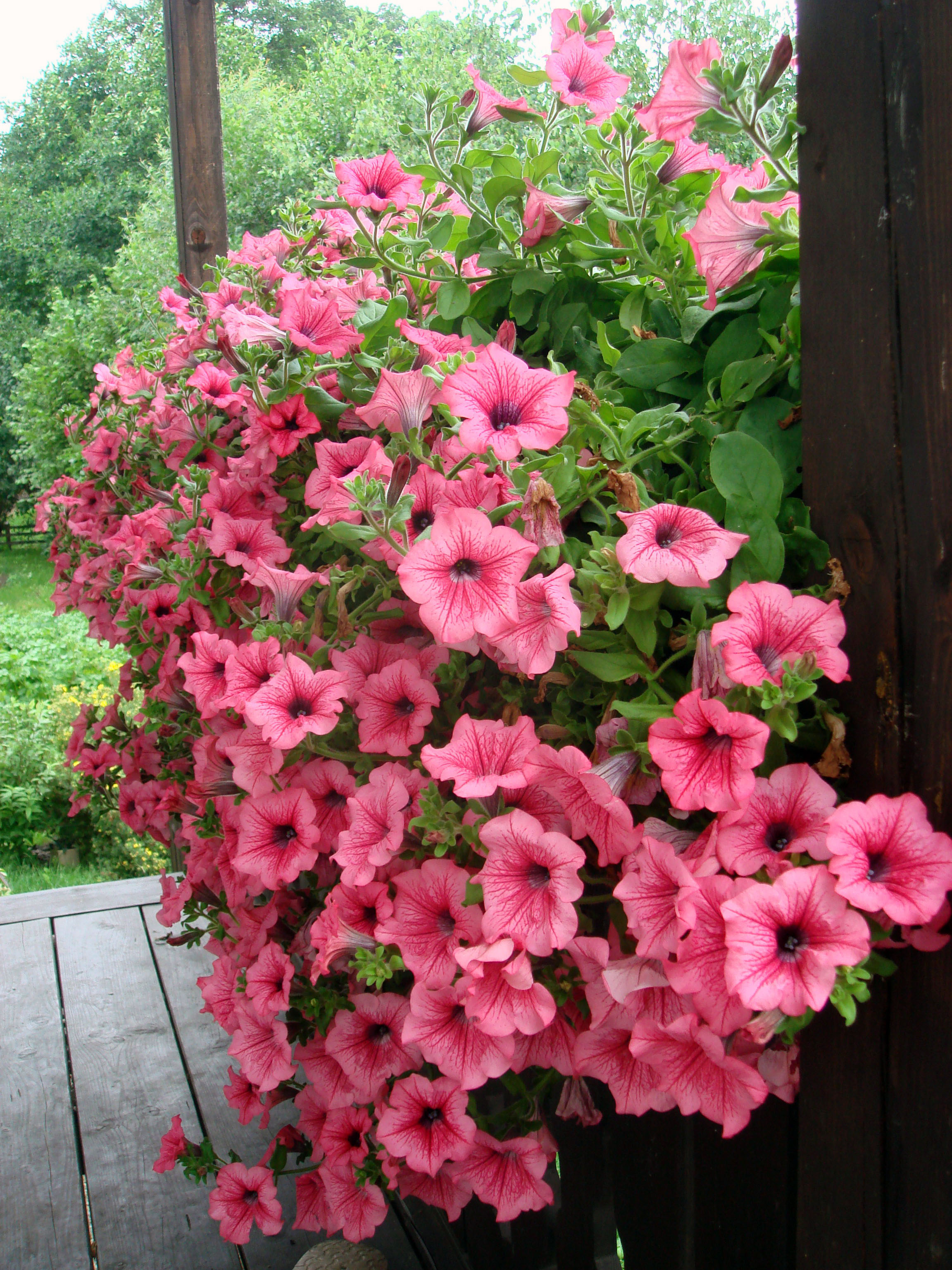 ok passt schon aber colll